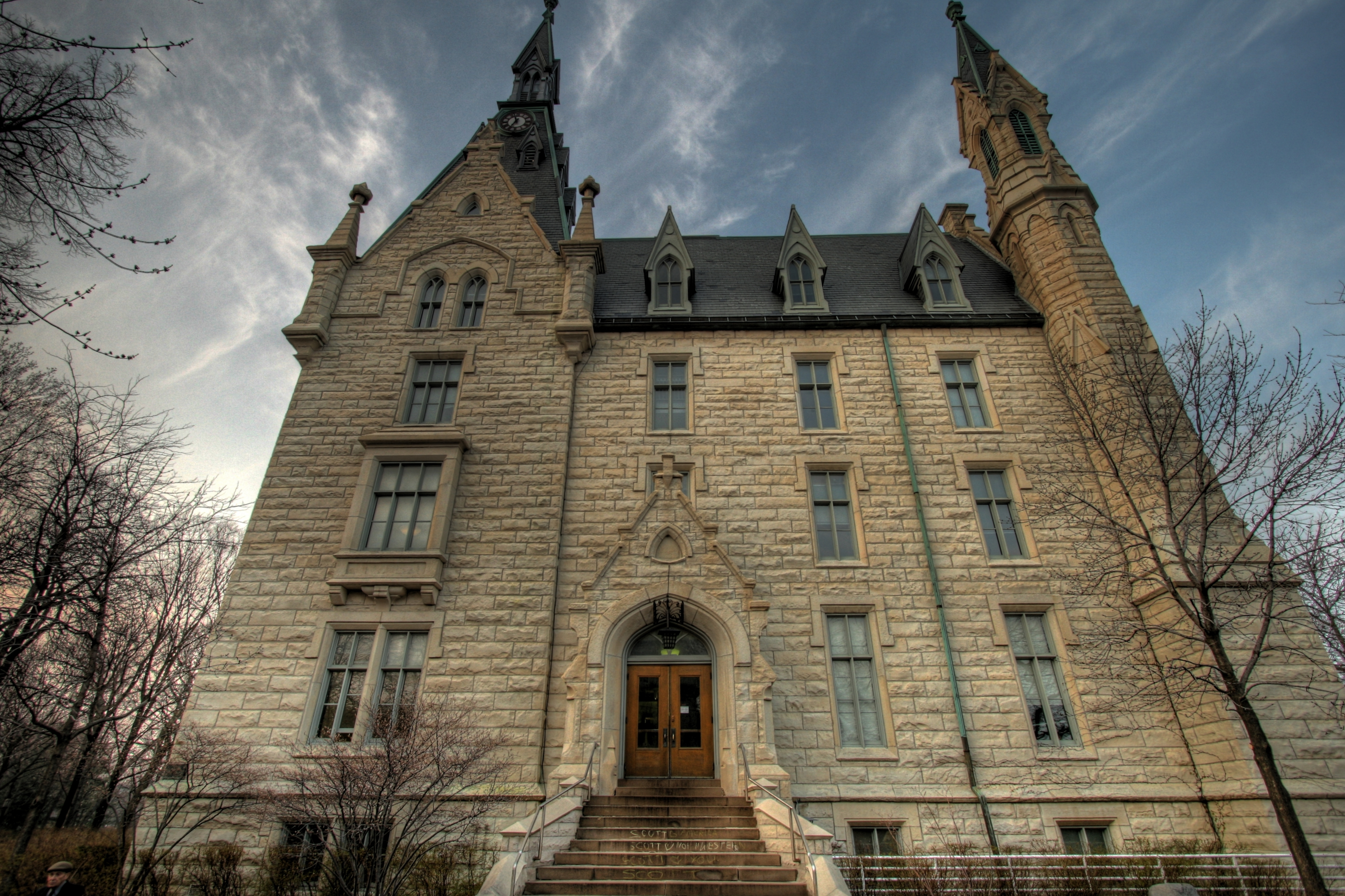 University Hall, Northwestern University